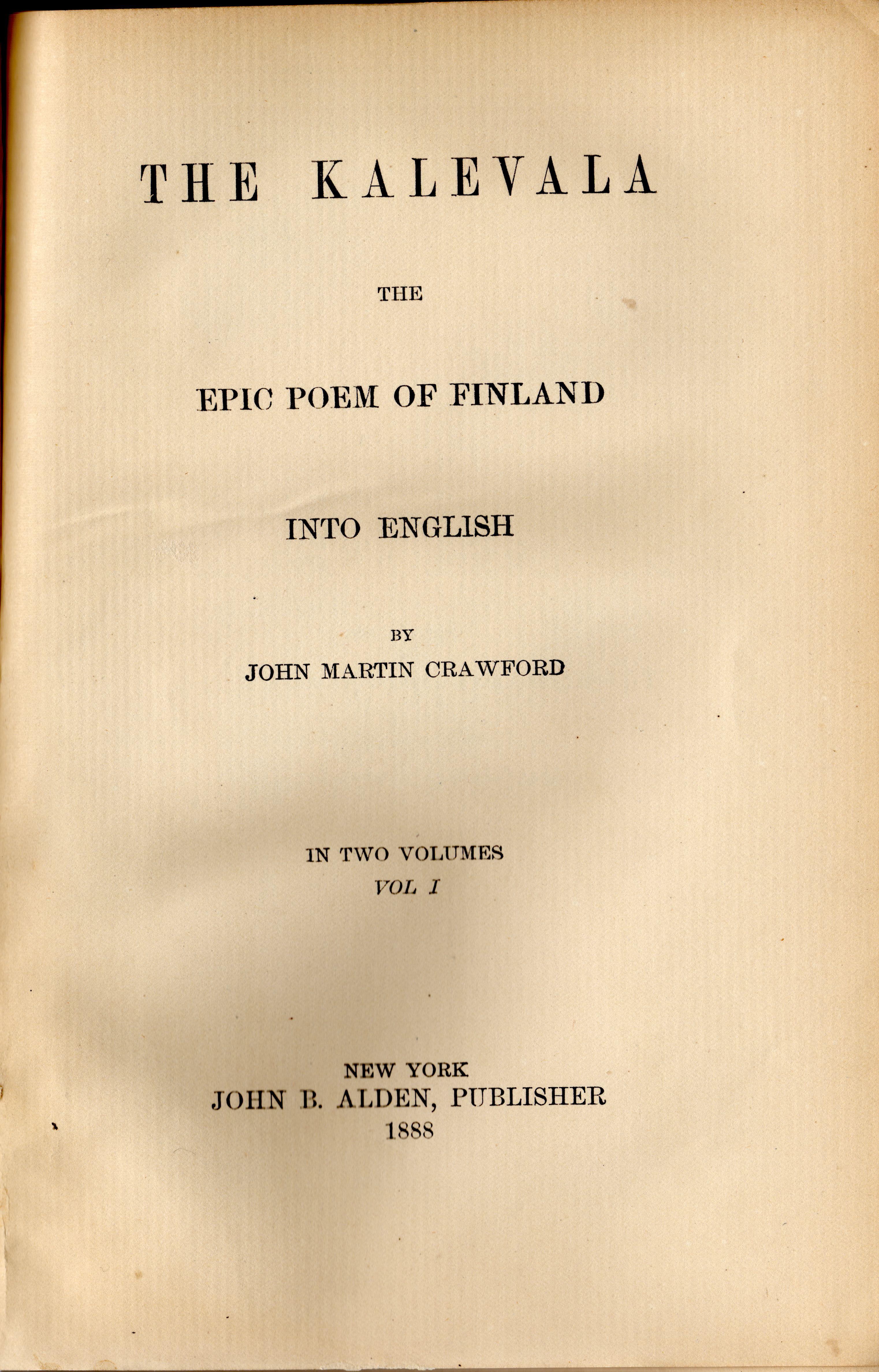 Scans of the 1888 translation of Kalevala into English. Title page to the 1888 translation of the Finnish Kalevala into English by John Martin Crawford.